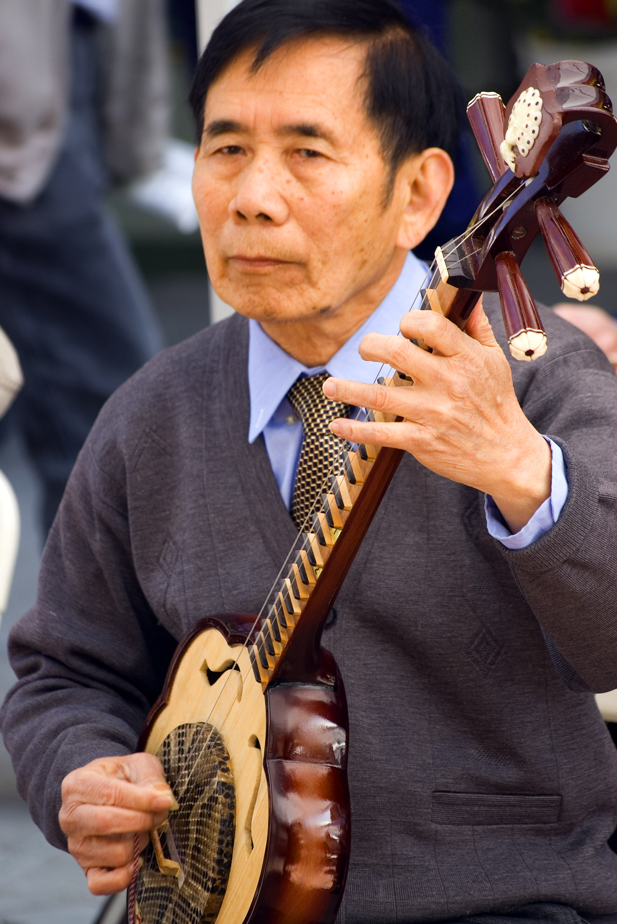 A musician playing a qinqin with python-skin resonator, with a Cantonese street band. Taken in Chinatown, San Francisco, United States, with a a Pentax K100D digital camera.